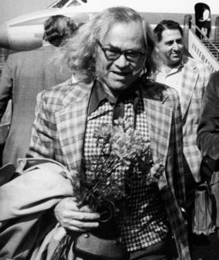 Cropped image of Morton Sobell in 1976